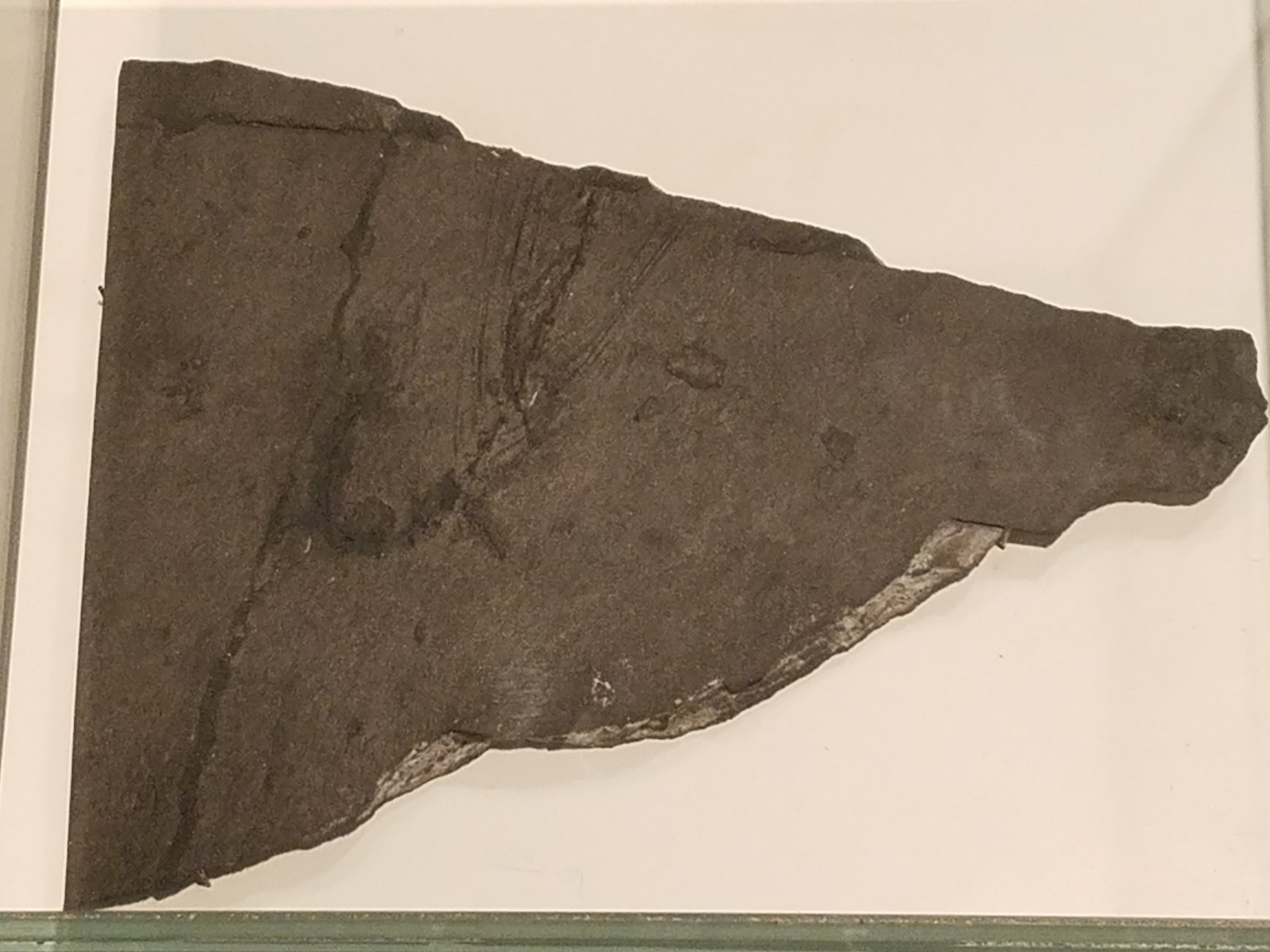 Photo of the holotype specimen of Mecistotrachelos apeoros (VMNH 3649) taken at the Virginia Museum of Natural History.